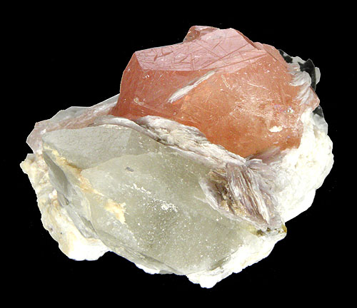 Beryl (Var.: Morganite), Albite, Quartz, Schorl, Muscovite Locality: Mawi pegmatite, Laghman (Lagman; Nuristan) Province, Afghanistan (Locality at ) Size: 5.3 x 4.2 x 3.6 cm. A group of rich pink, translucent, lustrous, hexagonal Beryl (var: "Morganite") crystals sit atop a matrix of off-white blocky Albite (var "Cleavelandite") crystals with Quartz and minor Muscovite and Schorl. The largest Morganite crystal measures 2.6 cm across, but please note that the back of the crystal group is contacted. A very attractive and well crystallized display specimen of this classic pegmatite material.